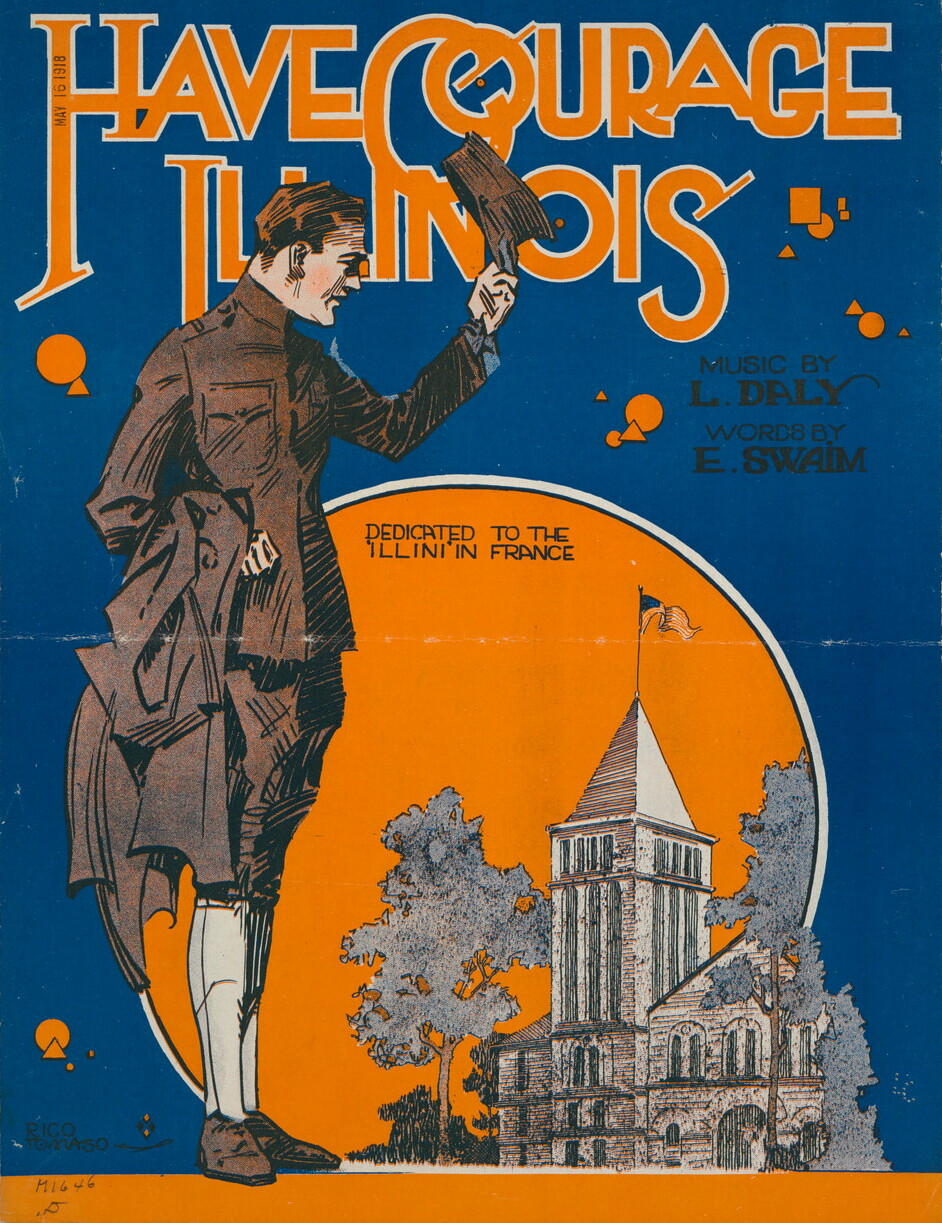 Front cover of the song, "Have Courage, Illinois," written by University of Illinois students Lewis Daly and Earl Francis Swaim.